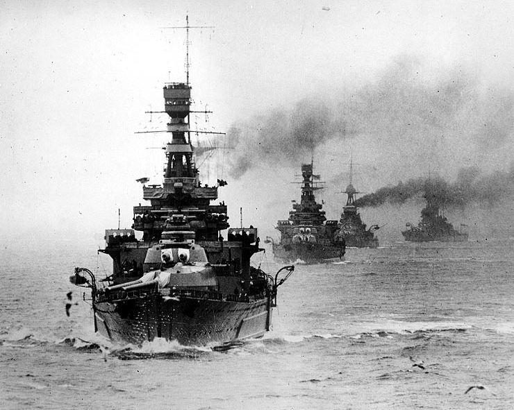 British battecruiser HMS Repulse on manoeuvres in the 1920s. Next in line is HMS Renown